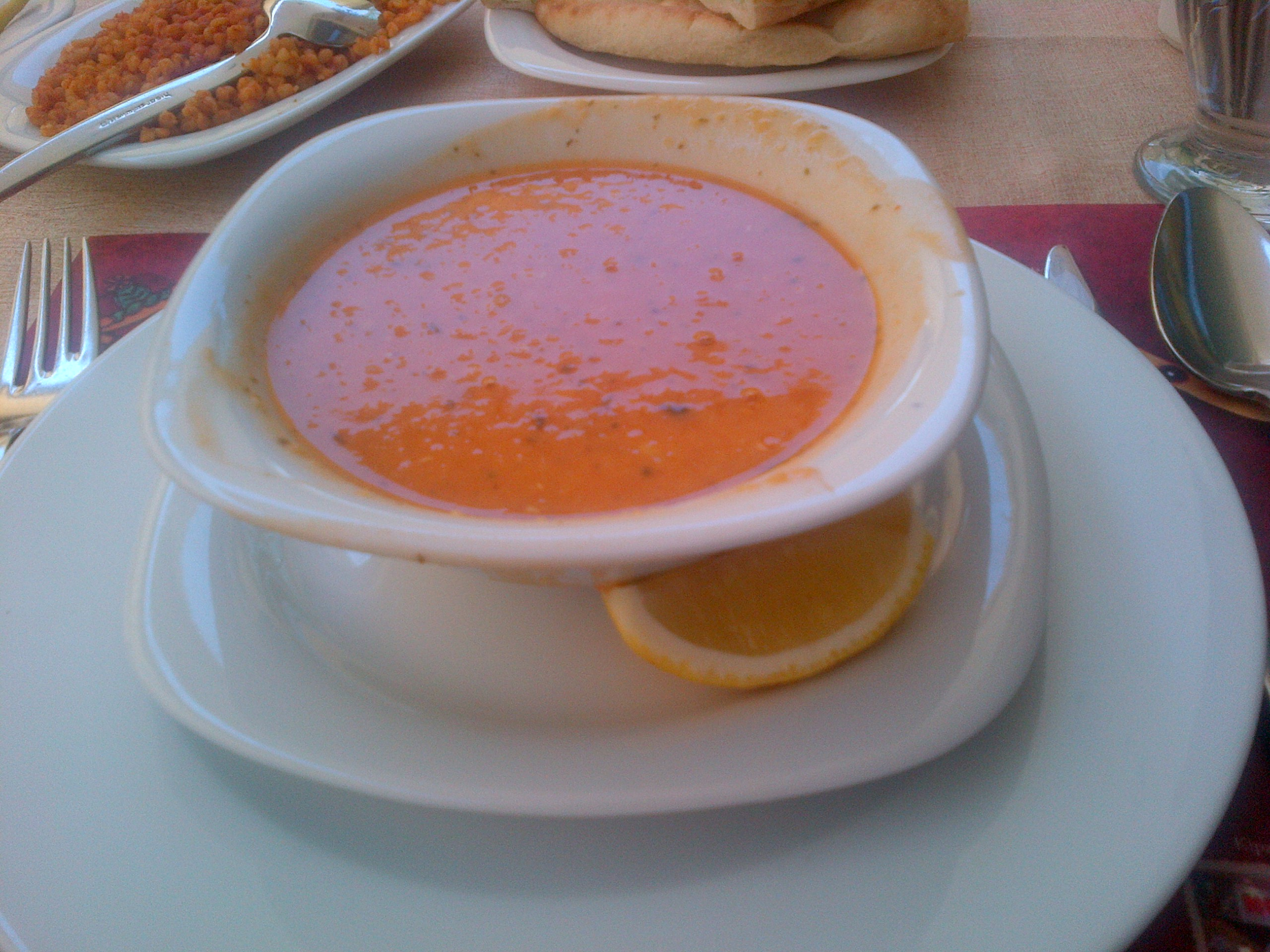 Ezo Gelin soup